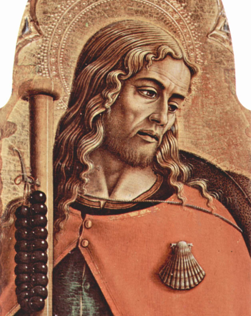 Shell of Saint James